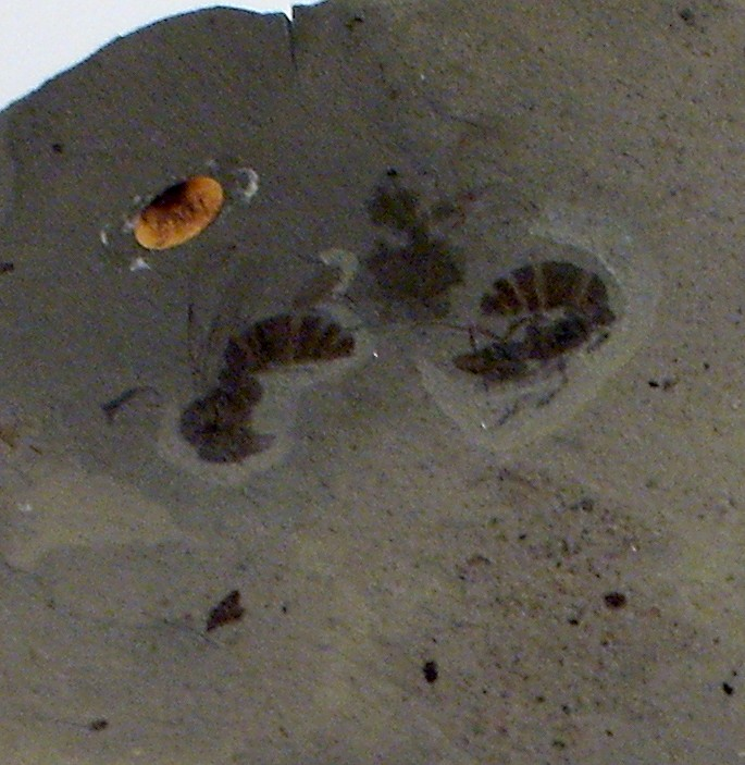 Holotype and paratype of Ypresiomyrma rebekkae (jr syn= Pachycondyla rebekkae) queens fossils (upper left) at the Geological Museum in Copenhagen.